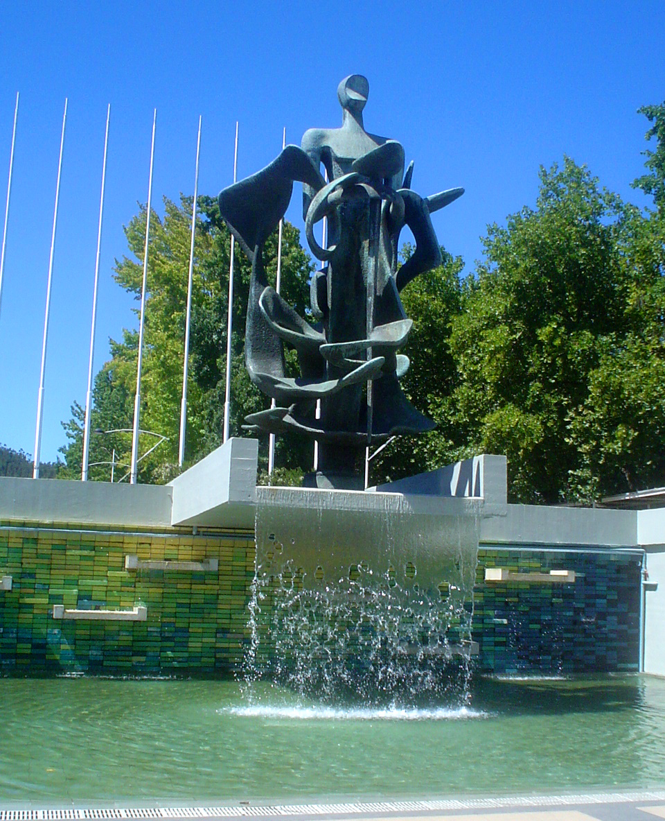 Modernist sculpture and fountain on Concepcion University campus.